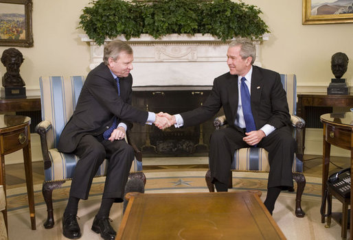 George W. Bush and Jaap de Hoop Scheffer.